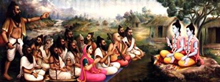 Catalytic meeting in Badrikashram with NarNarayan Dev and Durvasa Muni which resulted in the birth of Shree Swaminarayan Bhagwan.